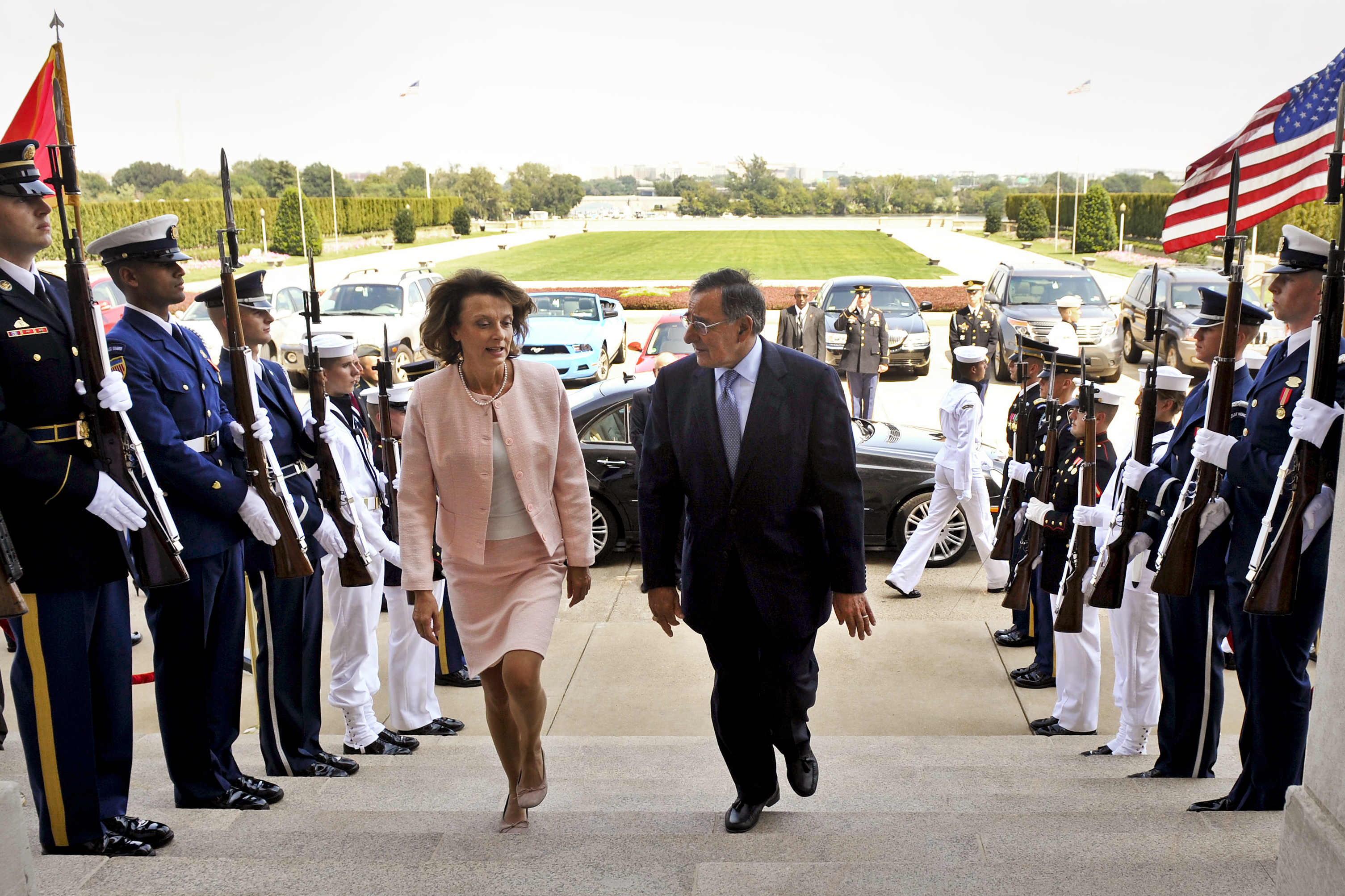 U.S. Defense Secretary Leon E. Panetta escorts Montenegrin Defense Minister Milica Pejanovic-Djurisic through an honor cordon into the Pentagon, Sept. 6, 2012.